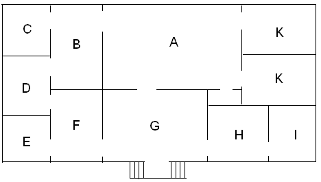 Ground plan for the ground floor of Saari manor in Mietoinen, Finland. Redrawn from a 1941 original